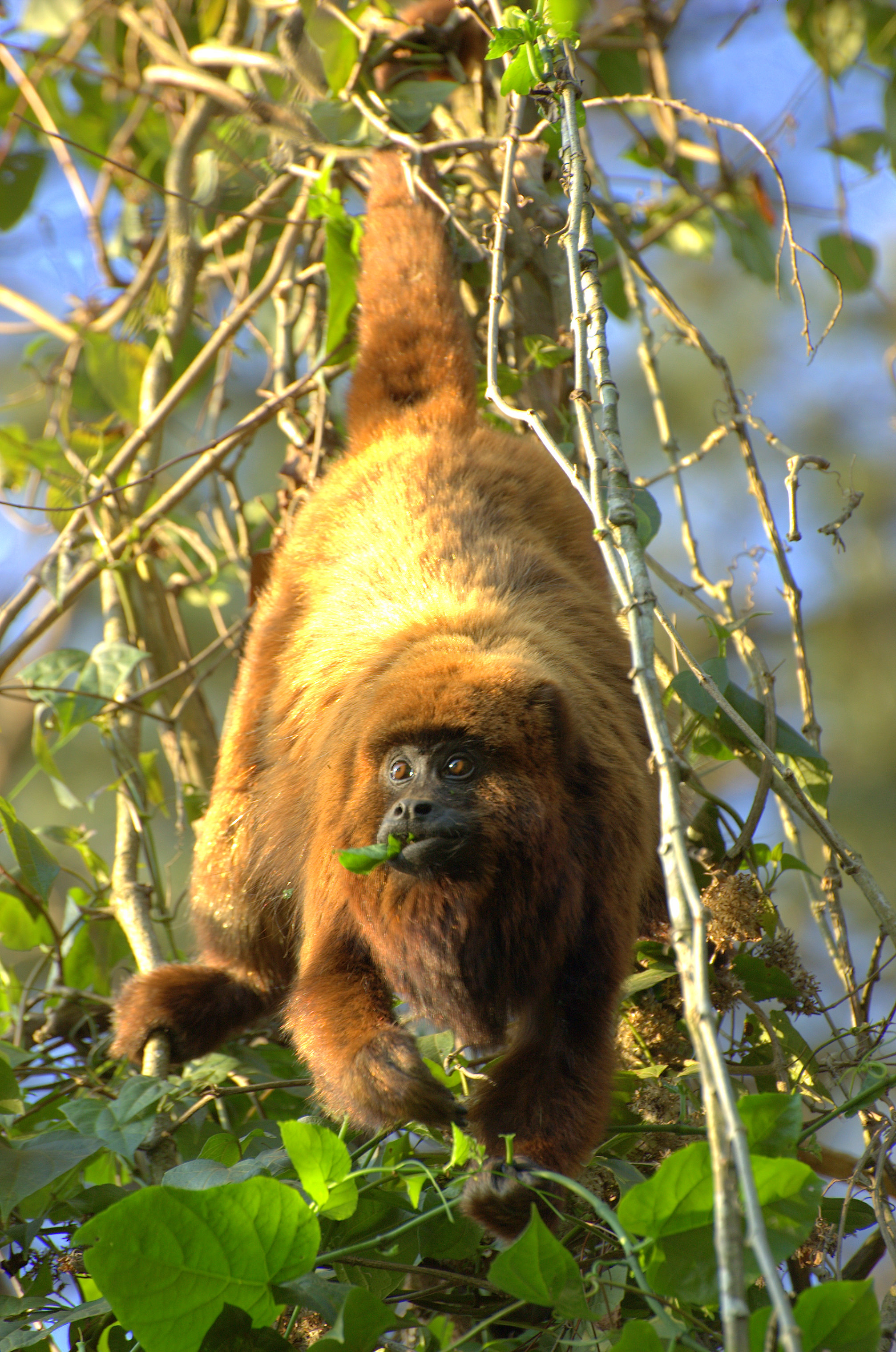 Brown Howler Monkey, Alouatta guariba clamitans Horto Florestal de São Paulo